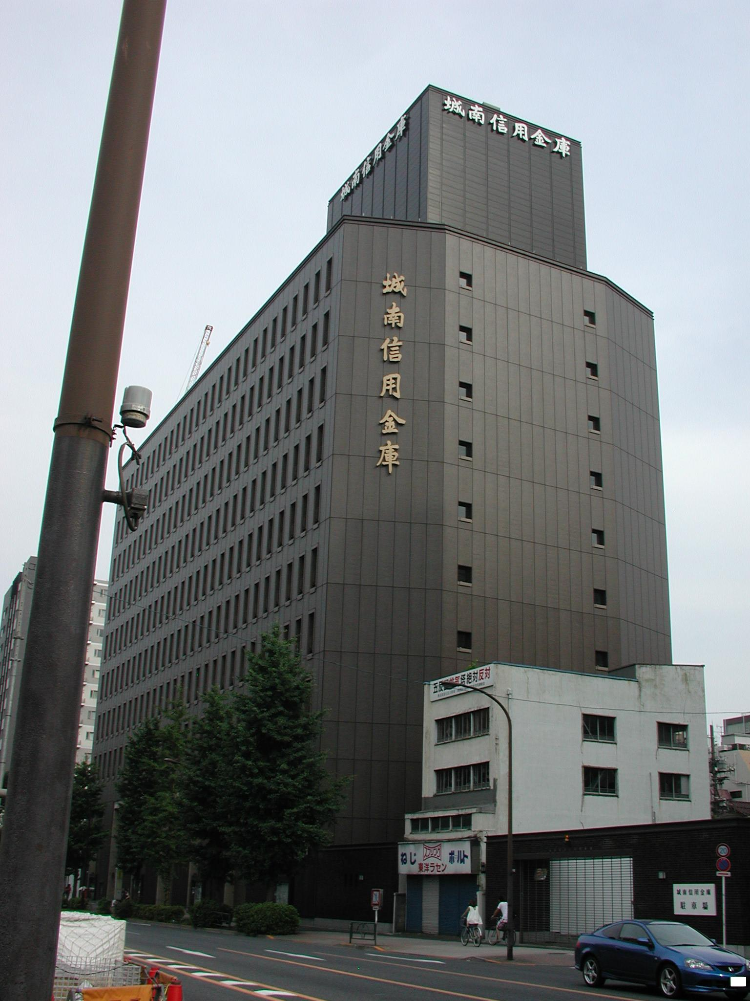 The Johnan Shinkin Bank Head Shops